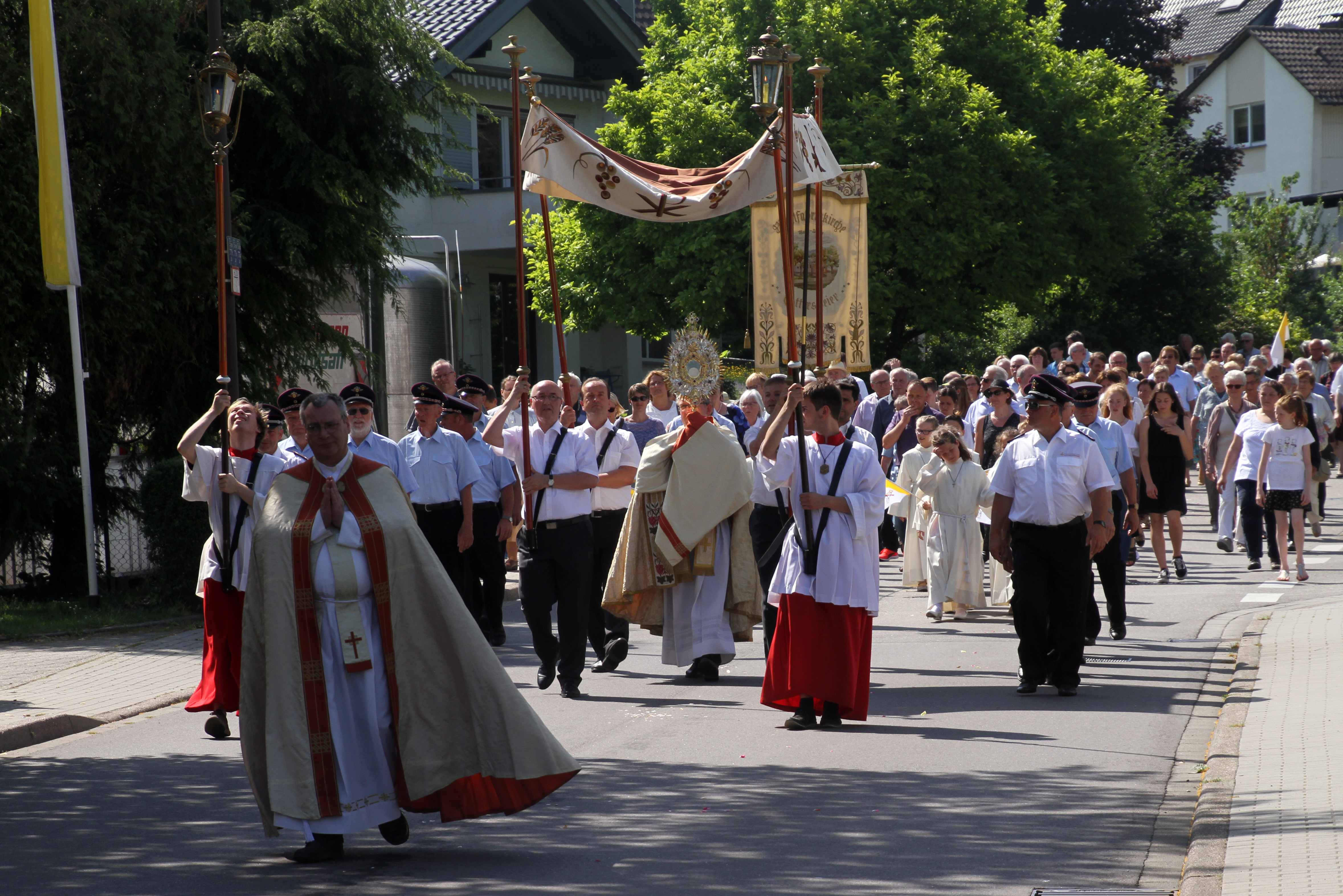 Corpus Christi procession in Ottersweier (Baden) 2017.